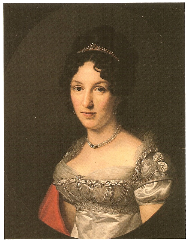 Portrait of Henriette Schröder, geb. von Schwartz (1798-1889), wife of Johann Heinrich Schröder (Unternehmer) (1784-1883), merchant and banker, founder of Schroders